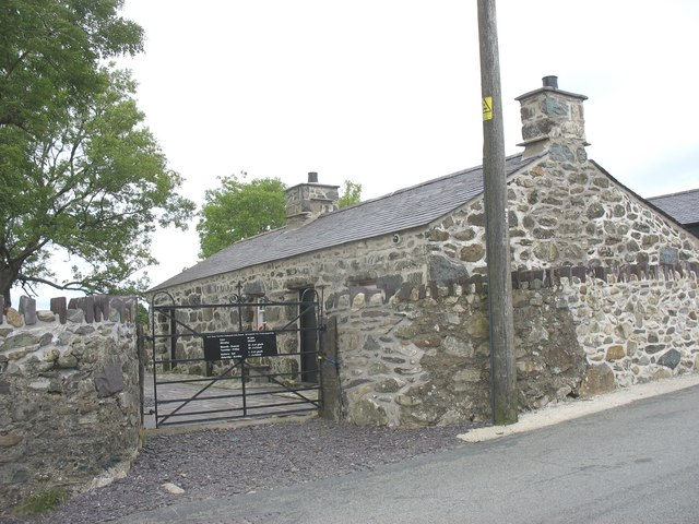 Cae'r Gors - the Kate Roberts Heritage Centre, Rhosgadfan Kate Roberts (1891-1985) was one of the outstanding Welsh-language novelists and short-story writers of the 20thC. Much of her work was set in the quarrying villages of the first quarter of the century - the period of crippling depression in the slate industry and of the large-scale loss of local lads in WWI